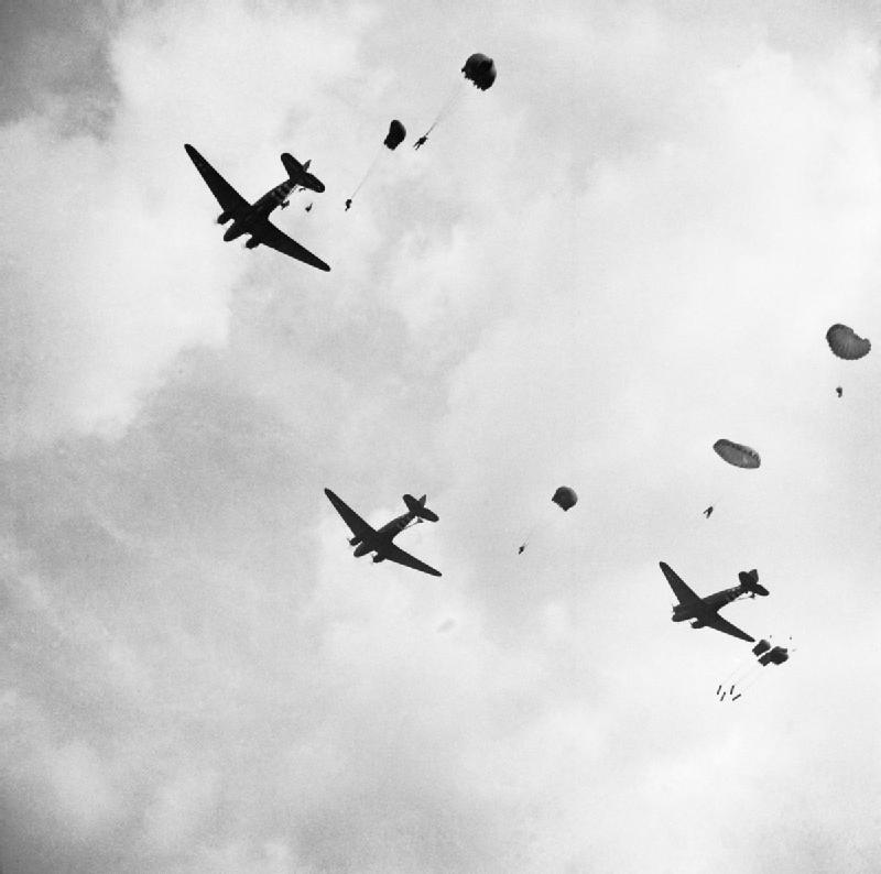 Arnhem 17 - 25 September 1944: C-47 Dakotas and paratroops of the 1st (British) Airborne Division silhouetted against a sky as they descend towards Oosterbeek, just outside Arnhem. They were dropped a little distance from the town to allow some organisation before going in to battle; on balance this proved to have been a mistaken tactic because of the time it gave the German forces to react.